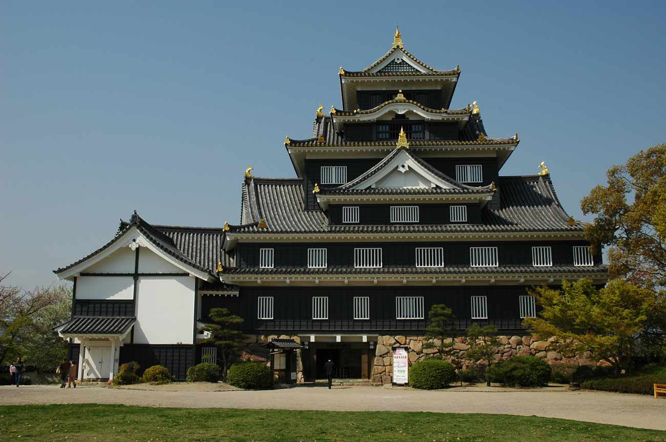 photo of Okayama Castle